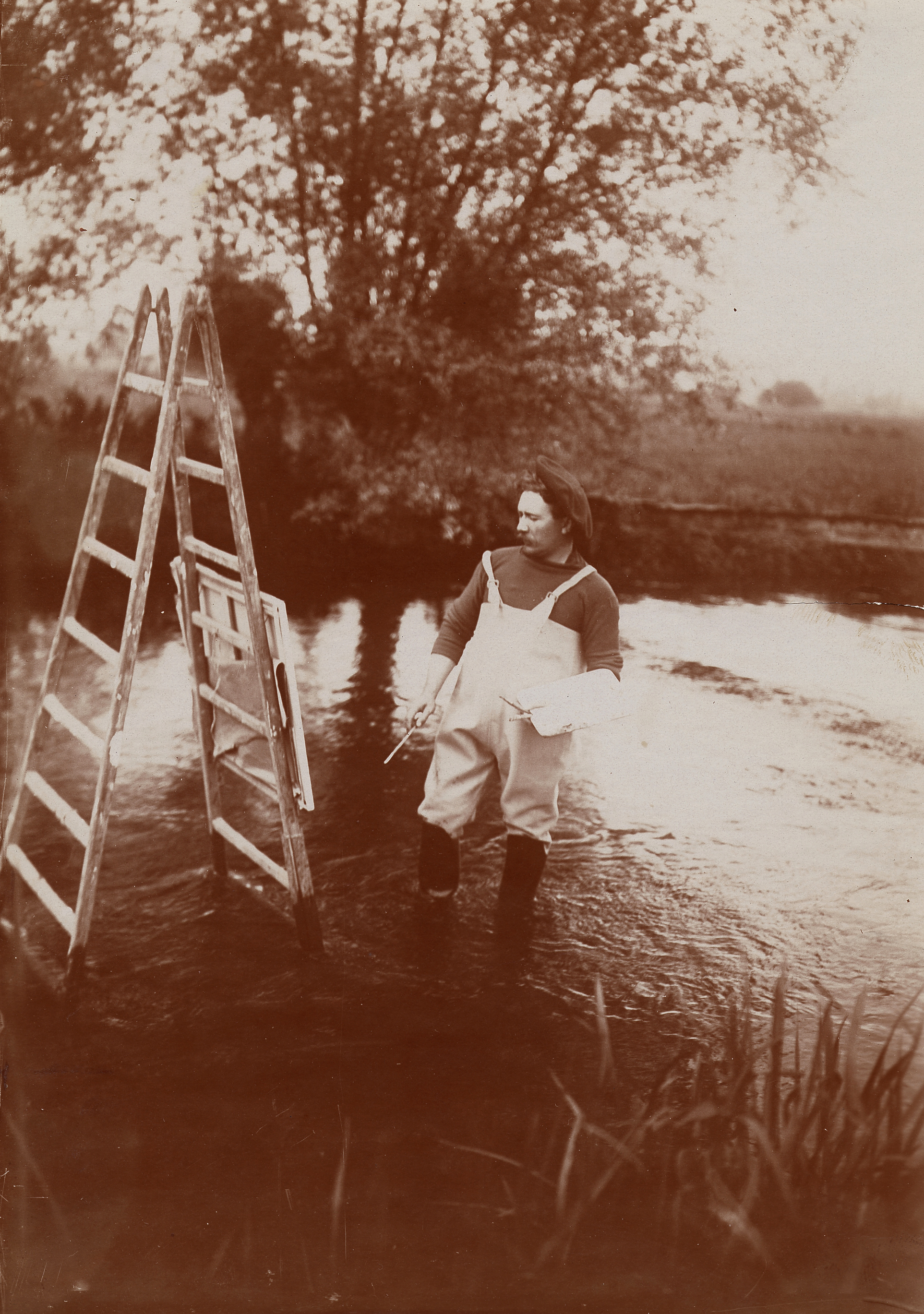 Description: Knight wearing high water boots standing in water and painting at an easel. Identification on verso (handwritten): Louis Aston Knight; Smith, F.H.; The Man in the High-Water Boots. Creator/Photographer: Unidentified photographer Medium: Black and white photographic print Dimensions: 18 cm x 13 cm Date: c. 1890 Collection: Charles Scribner's Sons Art Reference Department Records, c. 1865-1957 Persistent URL: [1] Repository: Archives of American Art Native nameArchives of American ArtParent institutionSmithsonian InstitutionLocationWashington, D.C.Coordinates38° 53′ 52.44″ N, 77° 01′ 21.72″ W Established1954Web page control : Q2860568 VIAF: 151134814 ISNI: 0000 0001 2185 0758 LCCN: n79065944 NLA: 35007823 GND: 1023549-8 WorldCat institution QS:P195,Q2860568 Accession number: aaa_charscrs_4285